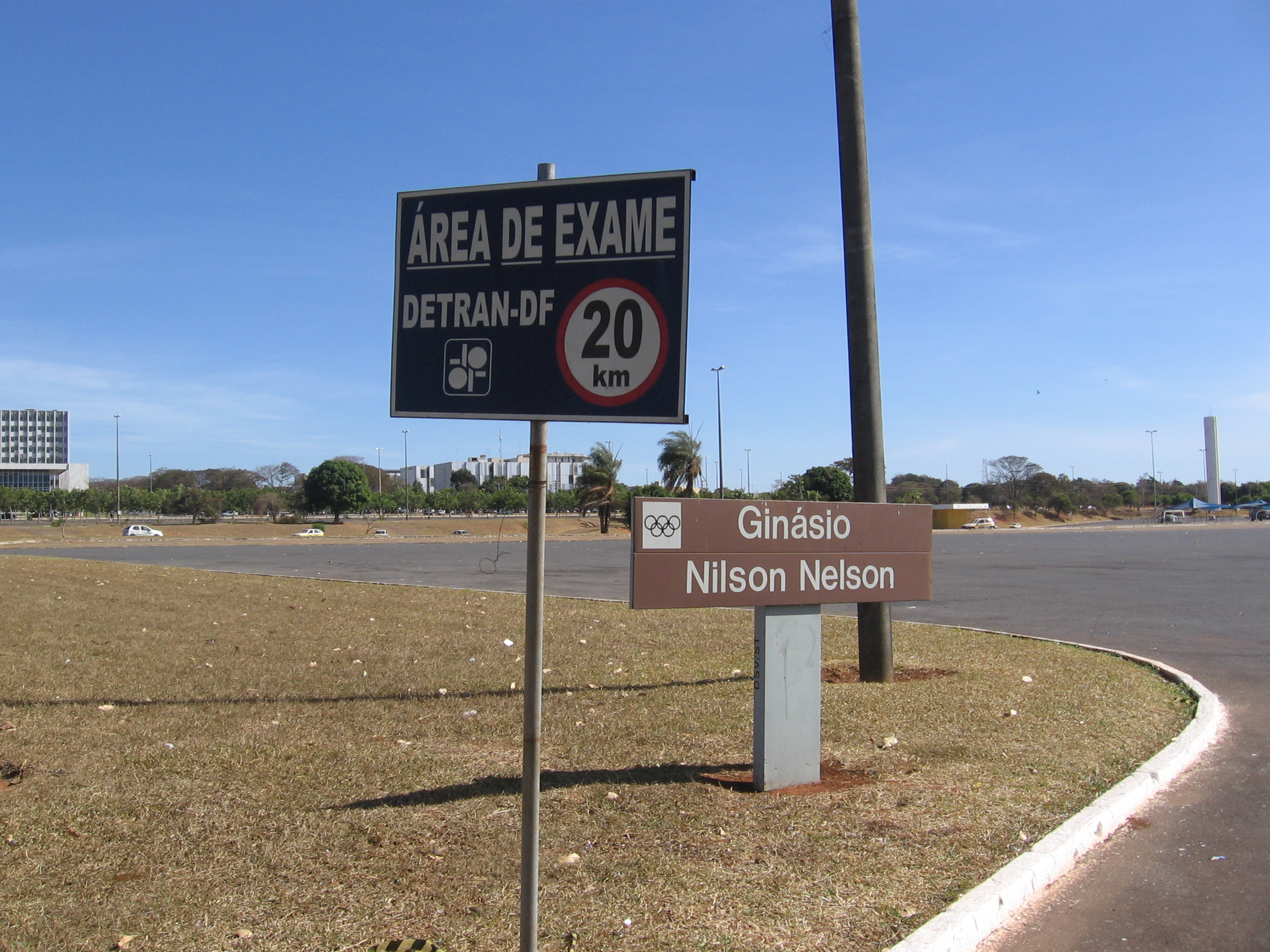 Picture of Ginasio Nilson Nelson's access, in Brasilia, Brazil, showcasing the fact that it is an official driver training location